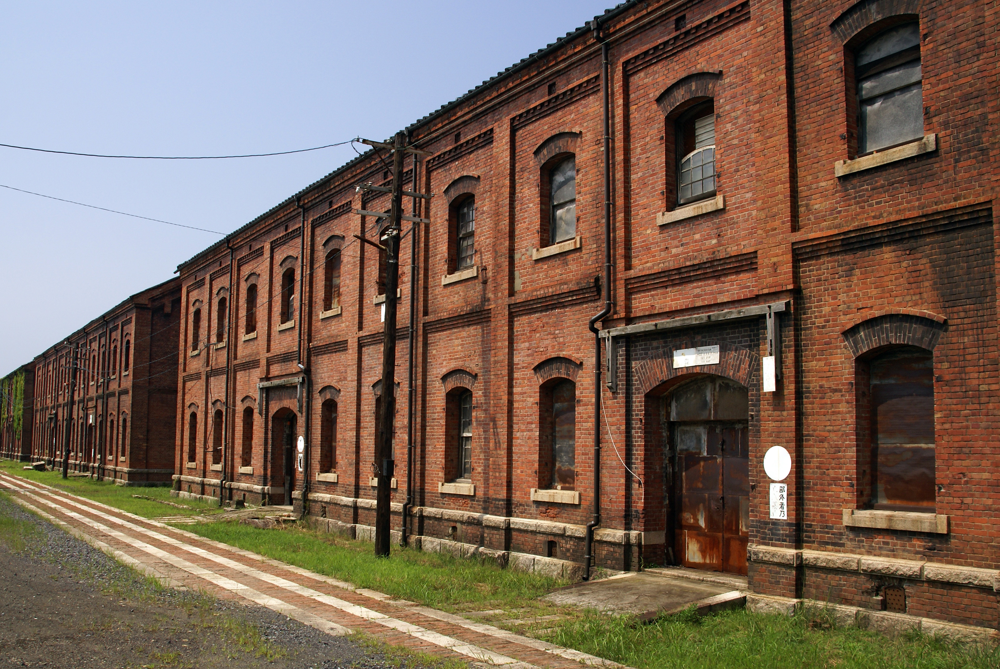 Maizuru Red Brick Warehouses in Maizuru, Kyoto prefecture, Japan